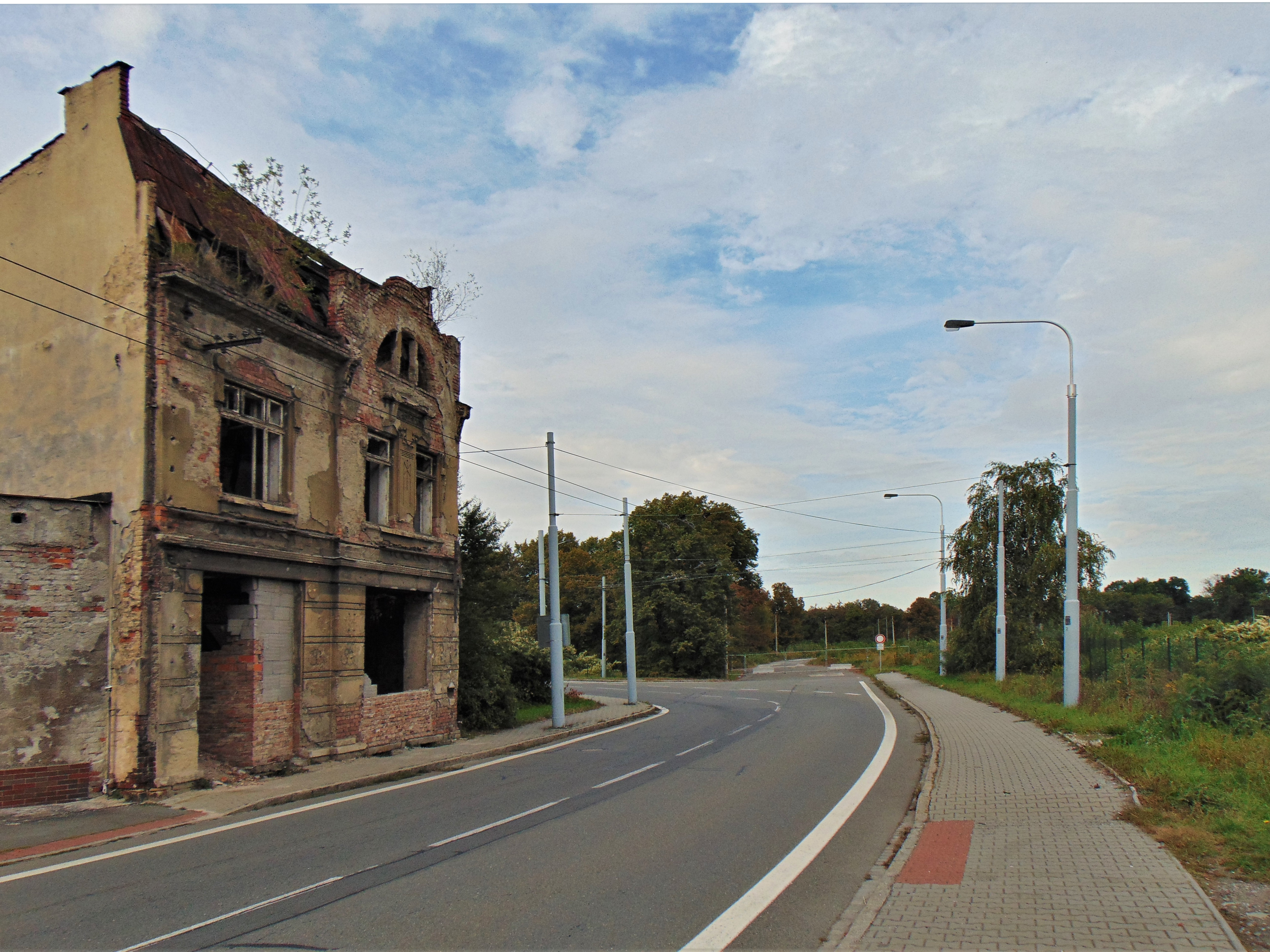 Žižkova Street in Hrušov, a district of Ostrava – the remains of the original development.